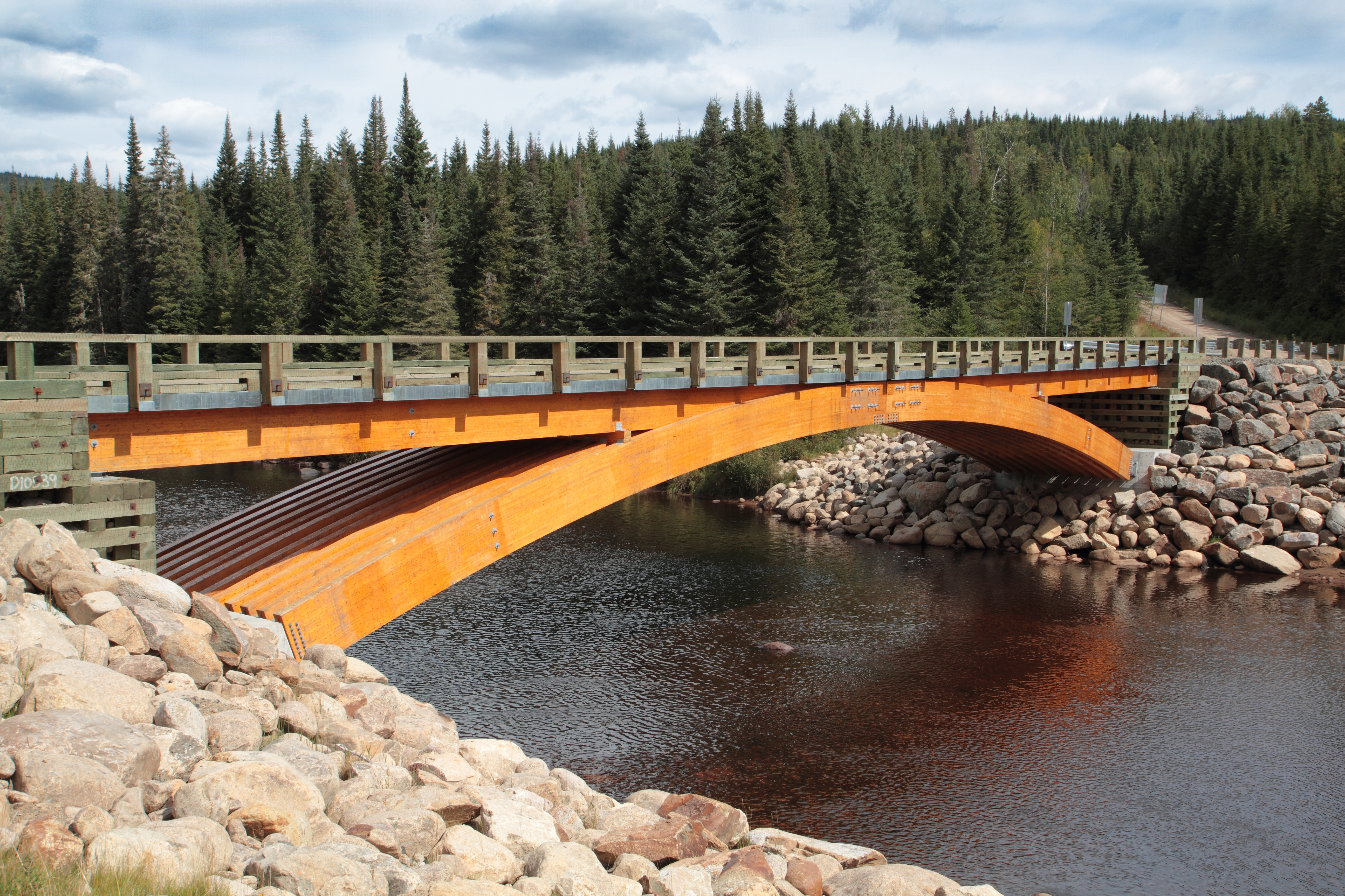 Wooden bridge in Montmorency forest crossing Montmorency River, Quebec, Canada. Made with 12 glulam archs. Total lenght: near 44 meters. Span: 33 meters. Width: 4,8 meters. Load limit: 63 700 kg.